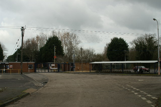 Entrance to BAE Systems (formerly Royal Ordnance Factory), Bridgwater